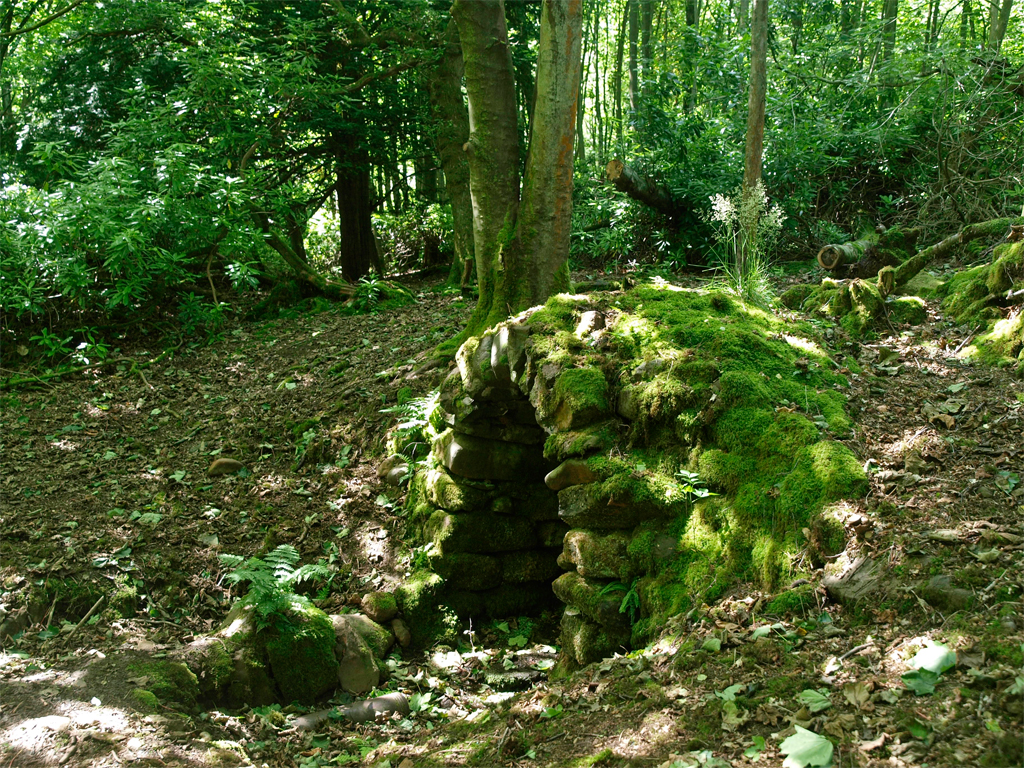 Polmaise Castle spring, Gillies Hill, Cambusbarron, Scotland